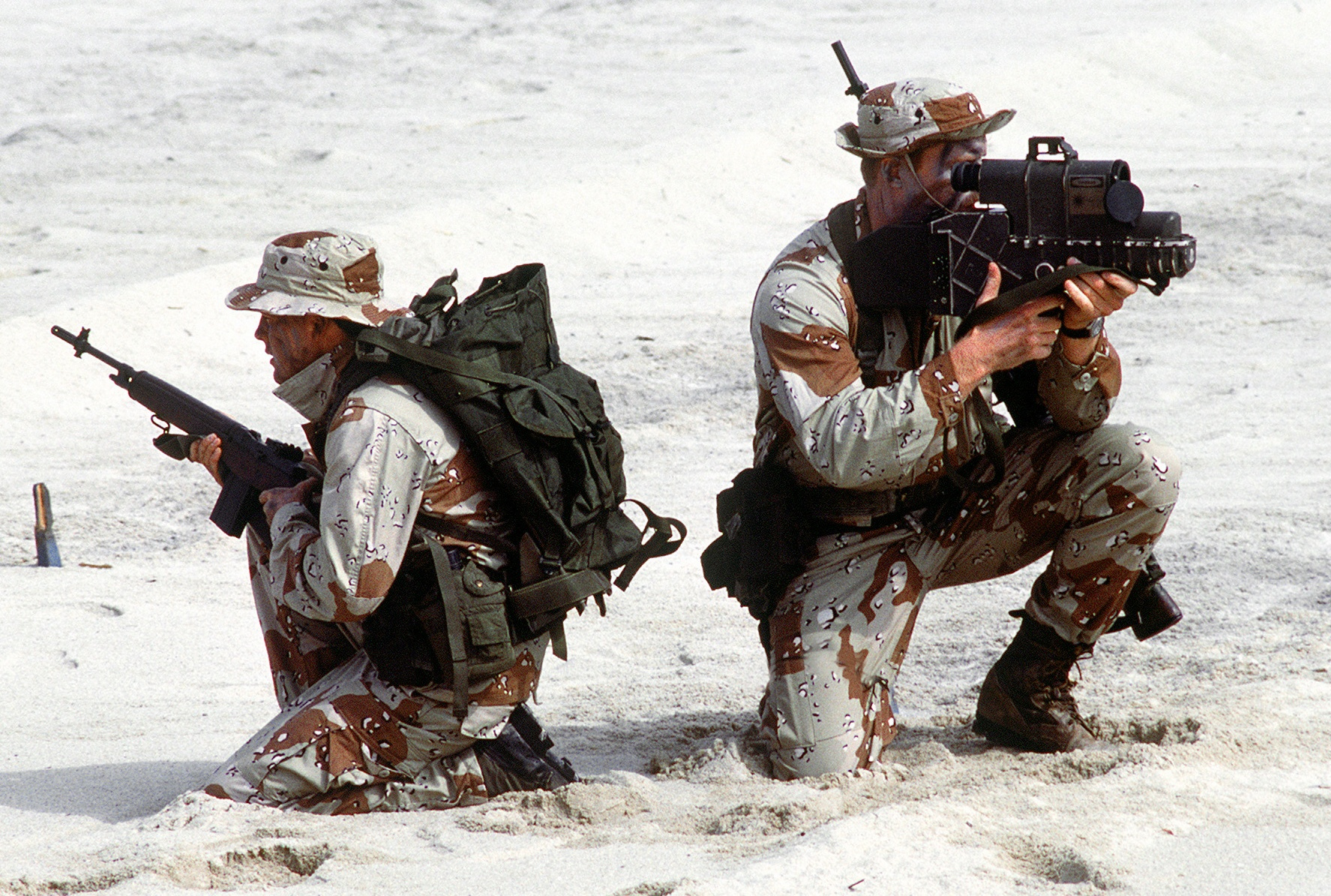 Two Sea-Air-Land (SEAL) team members, one equipped with an AN-PAQ-1 laser target DESIGNATOR, right, the other armed with an M-14 rifle, assume a defensive position after assaulting the beach during an amphibious demonstration for the 14th Annual Inter-American Naval Conference.Location: Naval Amphibious Base Little Creek, Virginia (VA), United States of America (USA)